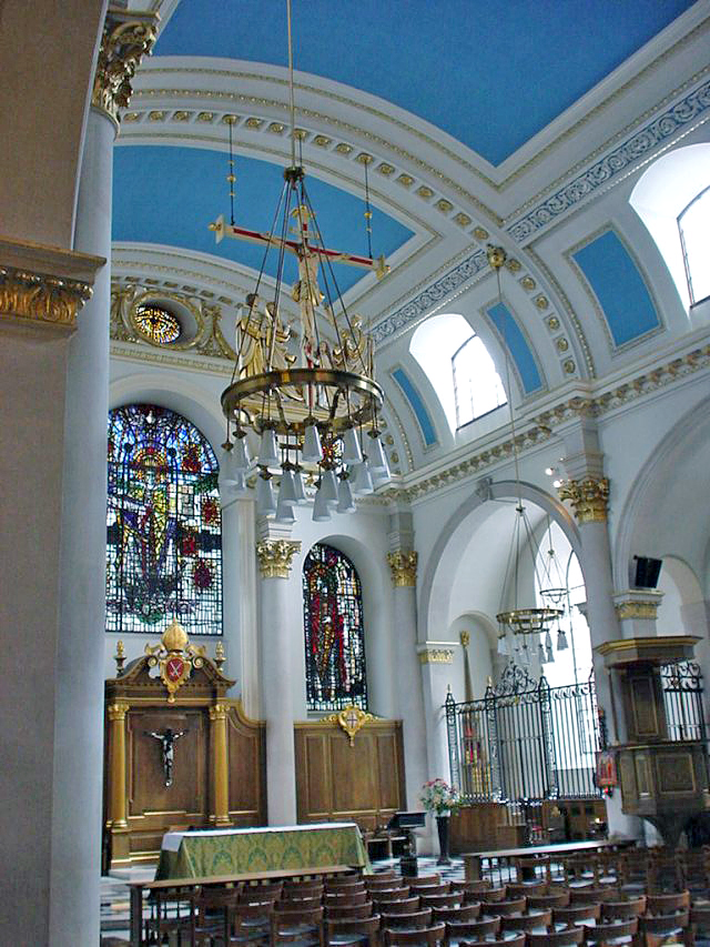 The interior of St Mary-le-Bow